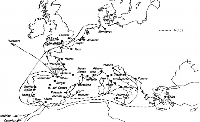 CastilianInternationalTrade